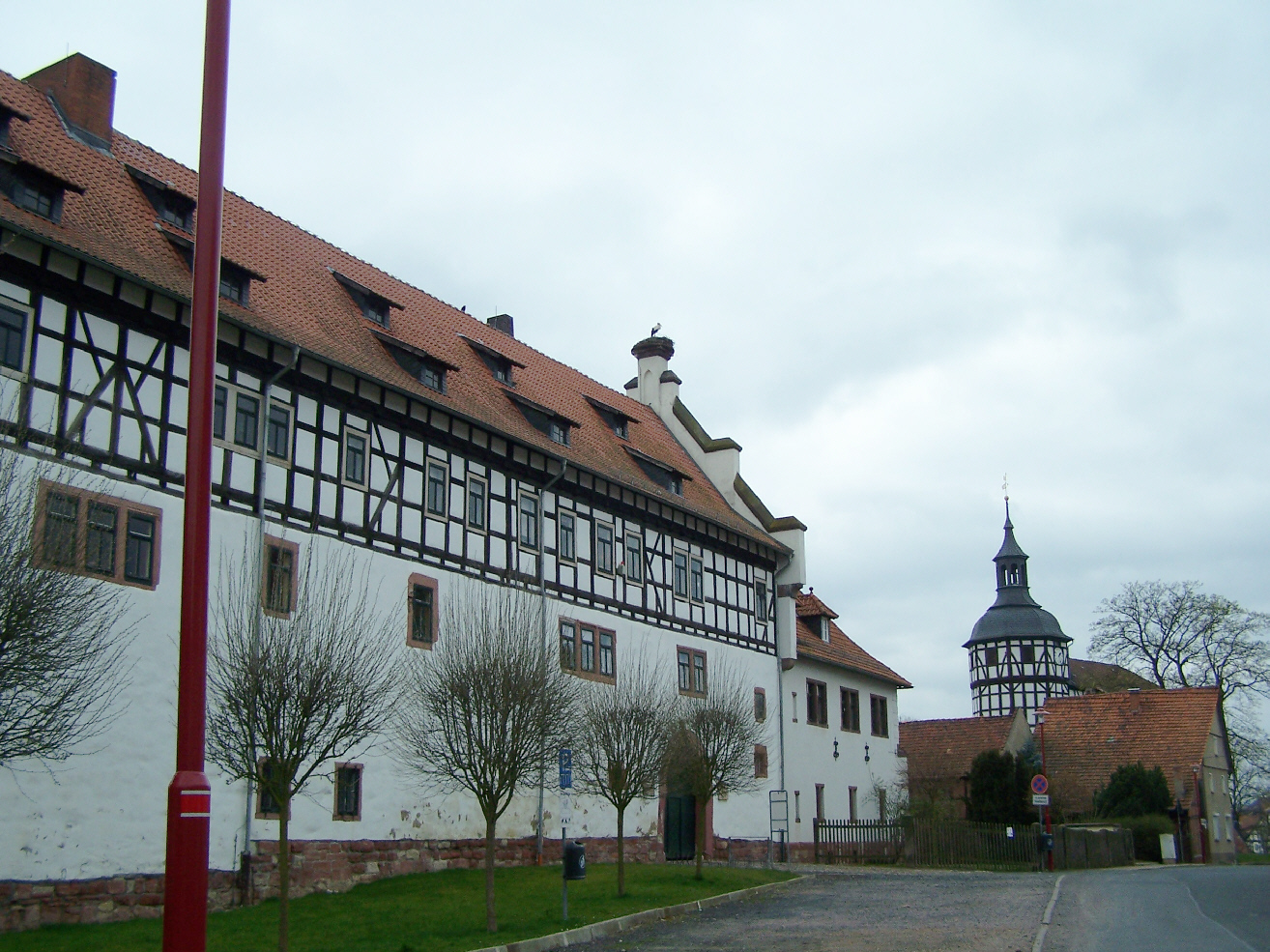 The church and castle in Gerstungen, place of the regional museum.